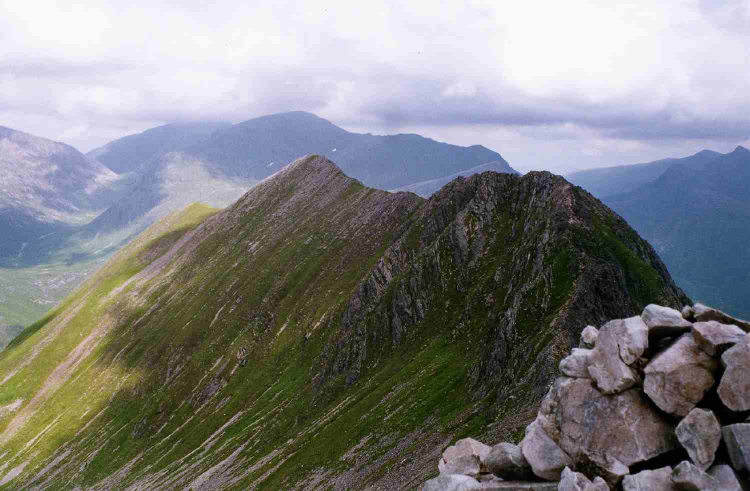 A view of An Gearanach from Stob Coire a' Chàirn.